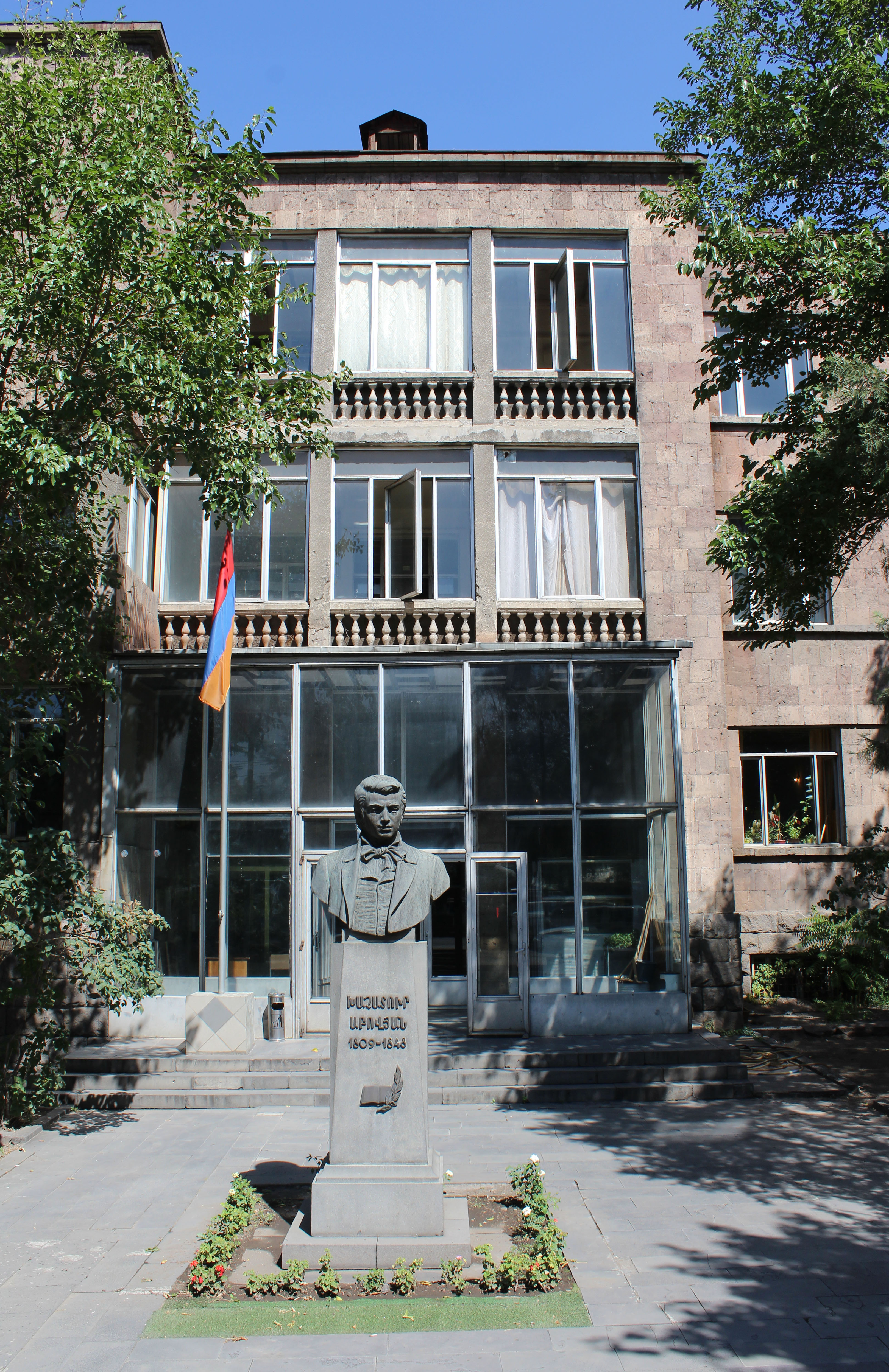 Khachatur Abovyan statue in Armenia 6/113